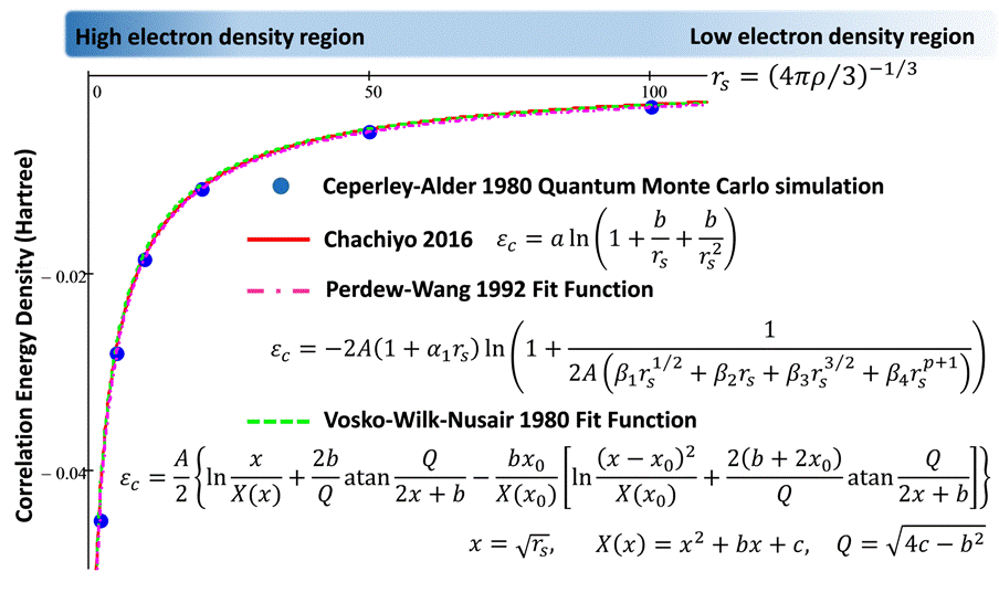 Comparisons between several LDA's correlation energy functionals and the Quantum Monte Carlo simulation.